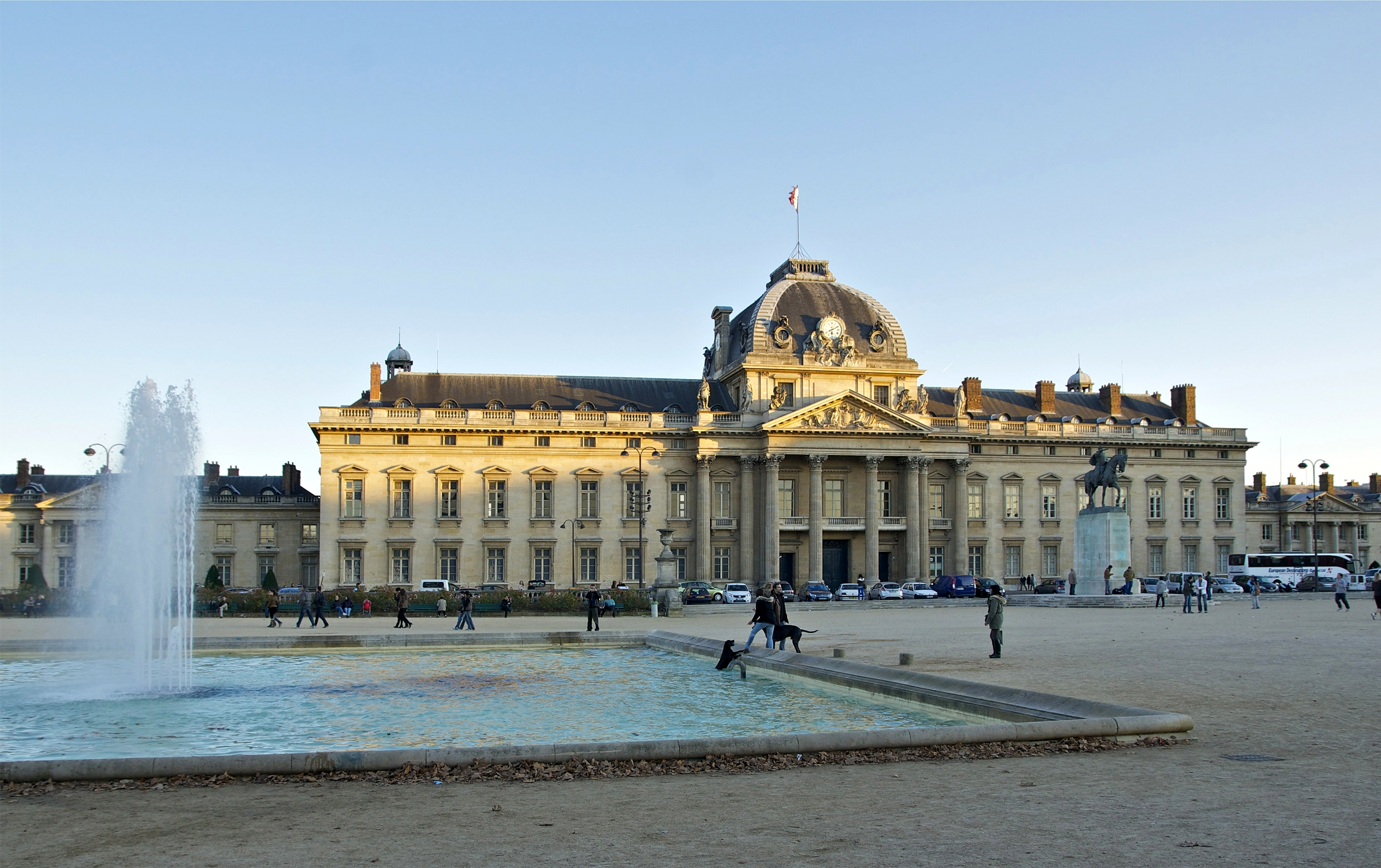 Sunset over the Ecole Militaire, Joffre square in Paris 7th arrondissement.